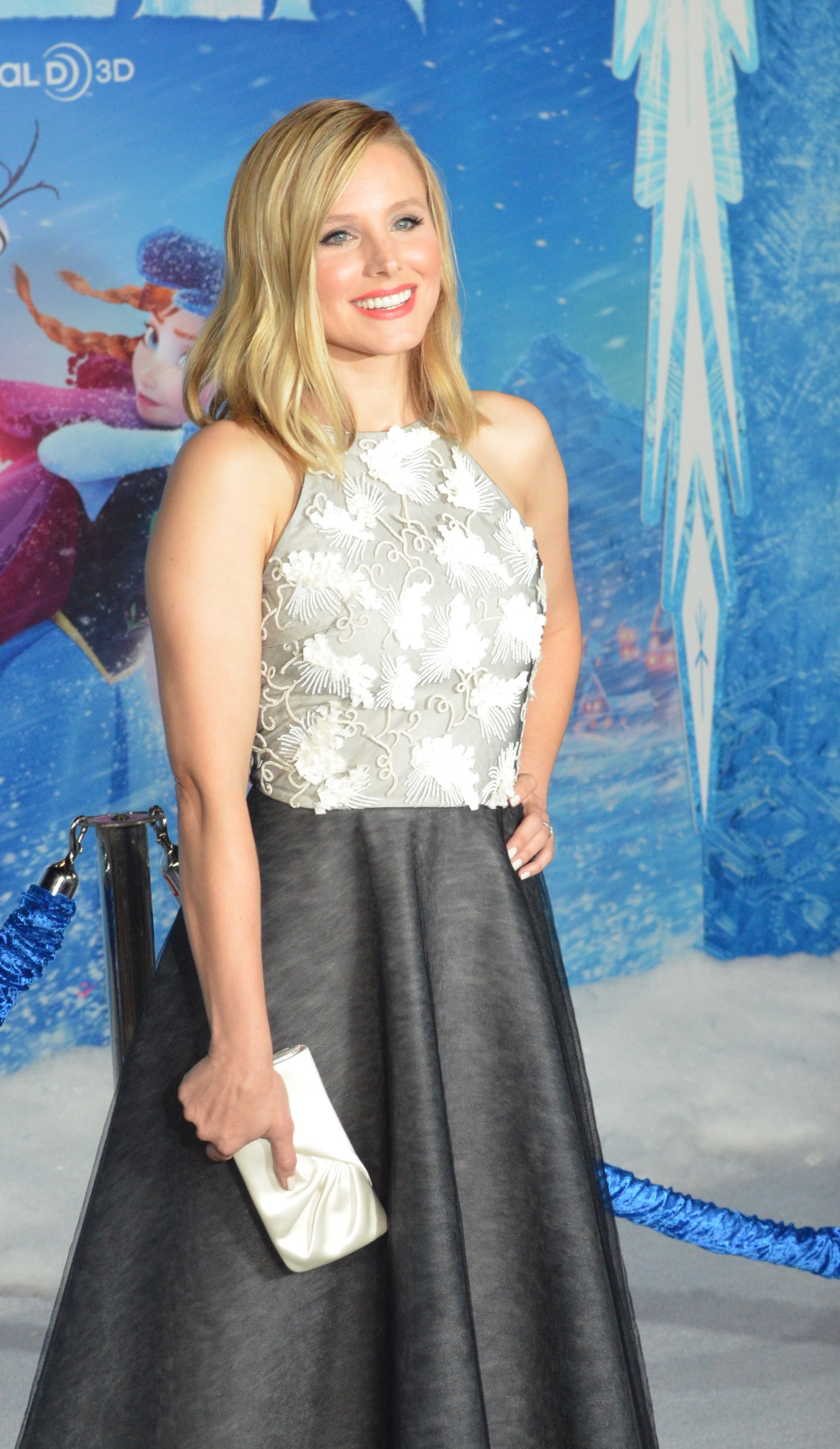 Kristen Bell as Anna, at Frozen premiere, El Capitan Theatre, Hollywood.